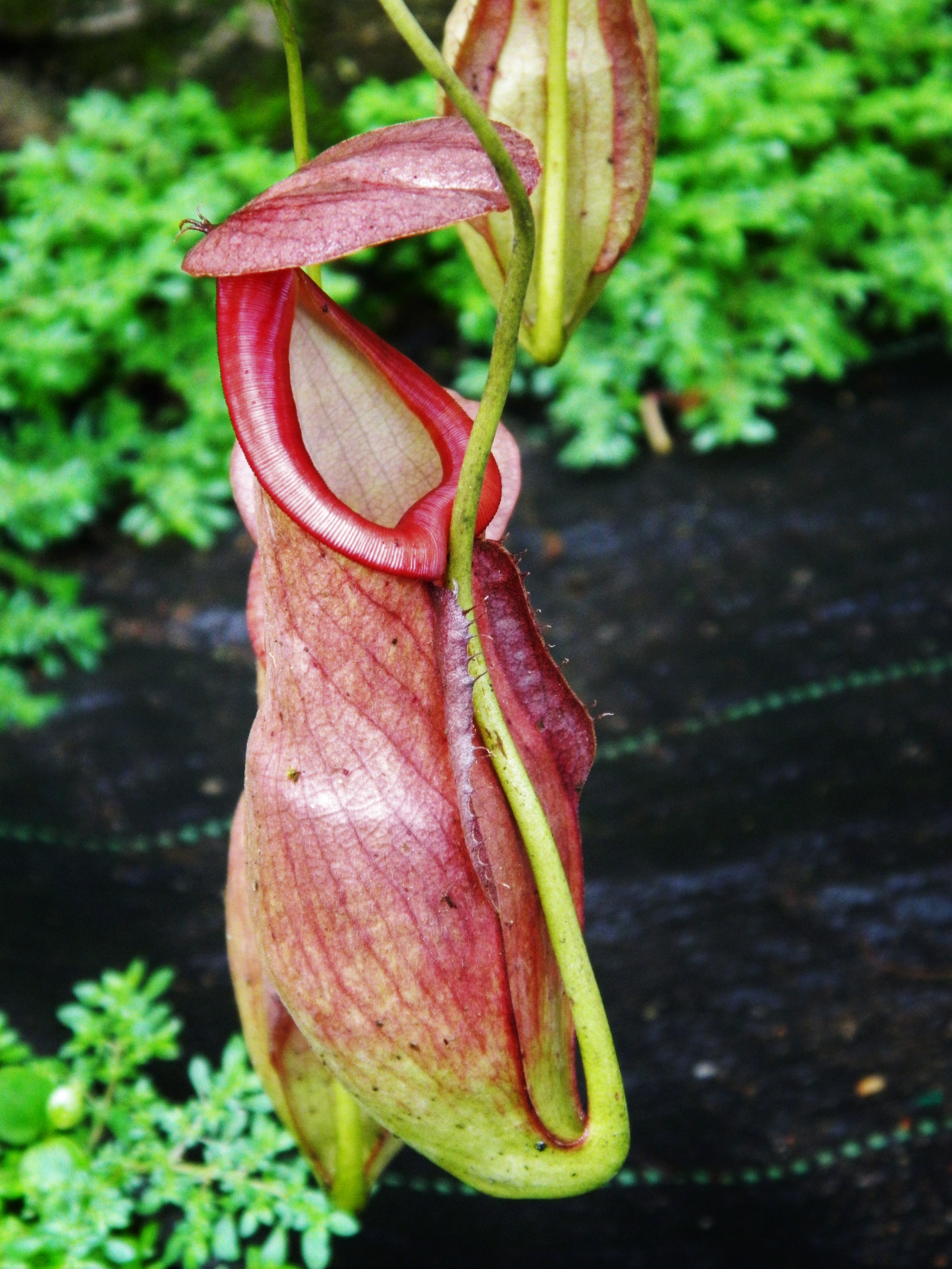 Nepenthes or the Pitcher Plant, at the Periyar Tiger Reserve, in Southern Western Ghats of India. An extension of the midrib (the tendril) protrudes from the tip of the leaf; at the end of the tendril the pitcher forms. The pitcher starts as a small bud and gradually expands to form a globe- or tube-shaped trap. The trap contains a fluid of the plant's own production, which may be watery or syrupy, and is used to drown the prey.